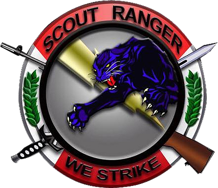 Coat of Arms of the First Scout Ranger Regiment